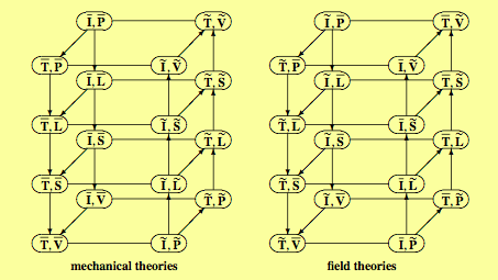 Classification of space and time elements endowed with inner and outer orientation.